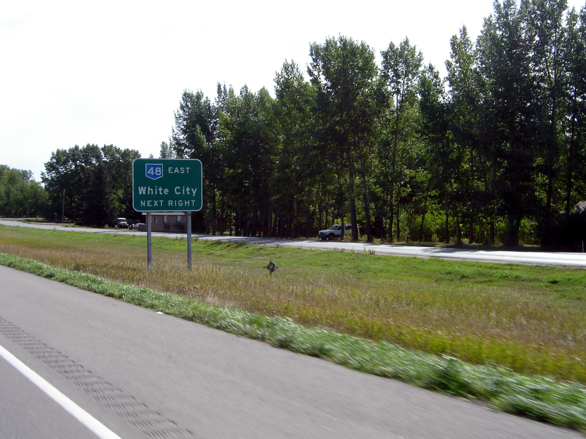 White City Sk Hwy 48 road sign on the Trans Canada Sk Hwy 1 Saskatchewan